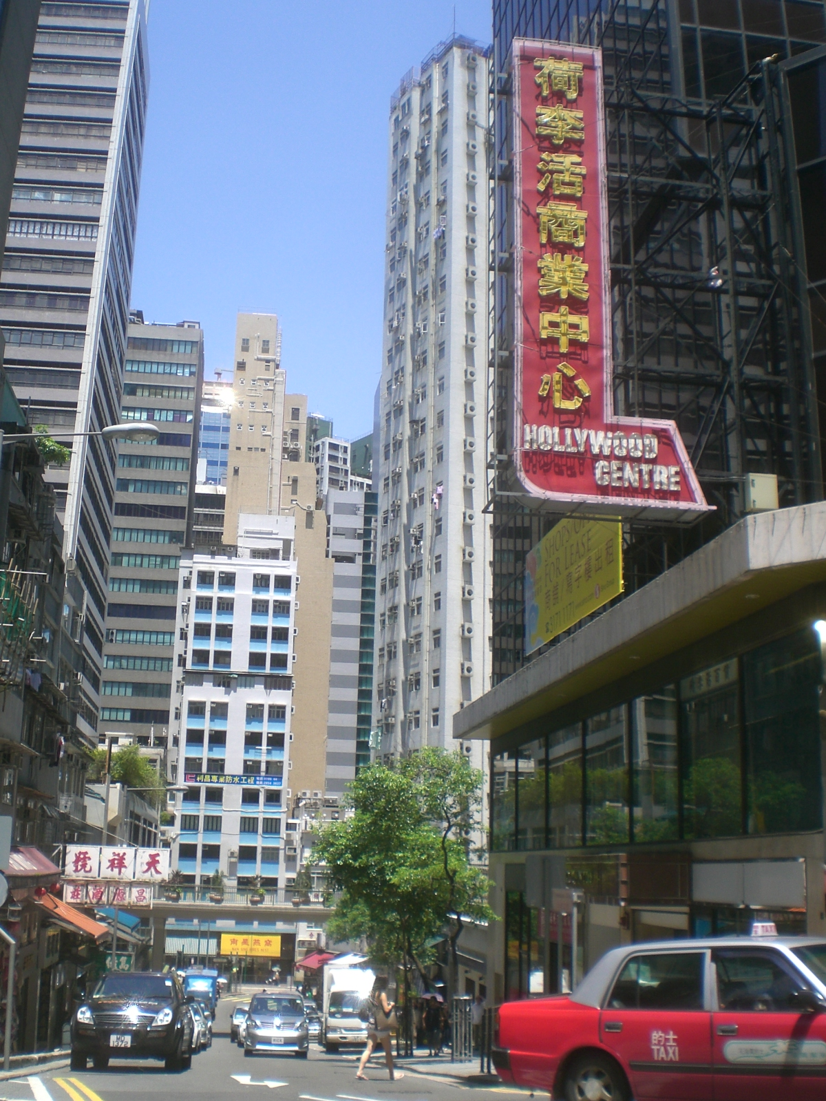 上環 水坑口街 荷李活商業中心 招牌